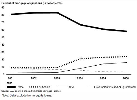 Historical Period 2001-2006